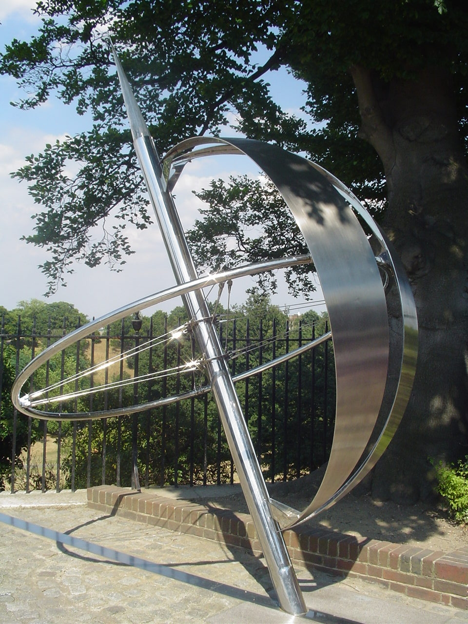 Prime meridian, Greenwich